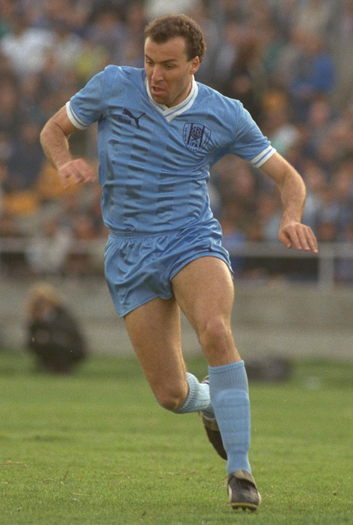 Israeli soccer star Ronny Rosenthal during a game between Israel and New Zealand held at Ramat Gan Stadium.